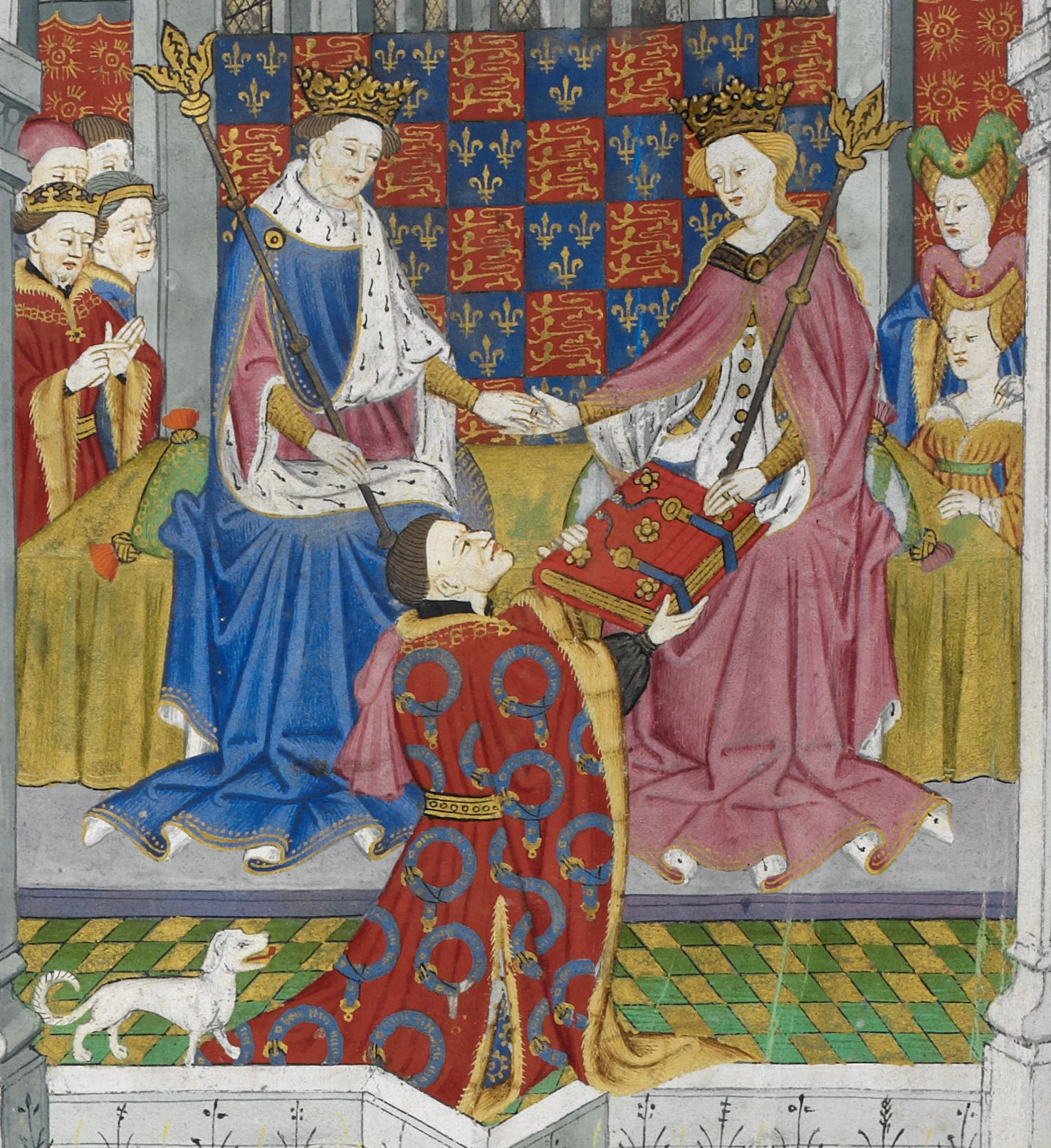 Detail of the illuminated miniature on the presentation page of the Talbot Shrewsbury Book, showing the donor, John Talbot, 1st Earl of Shrewsbury, with his characteristic dog presenting the book as a gift to Margaret of Anjou and Henry VI